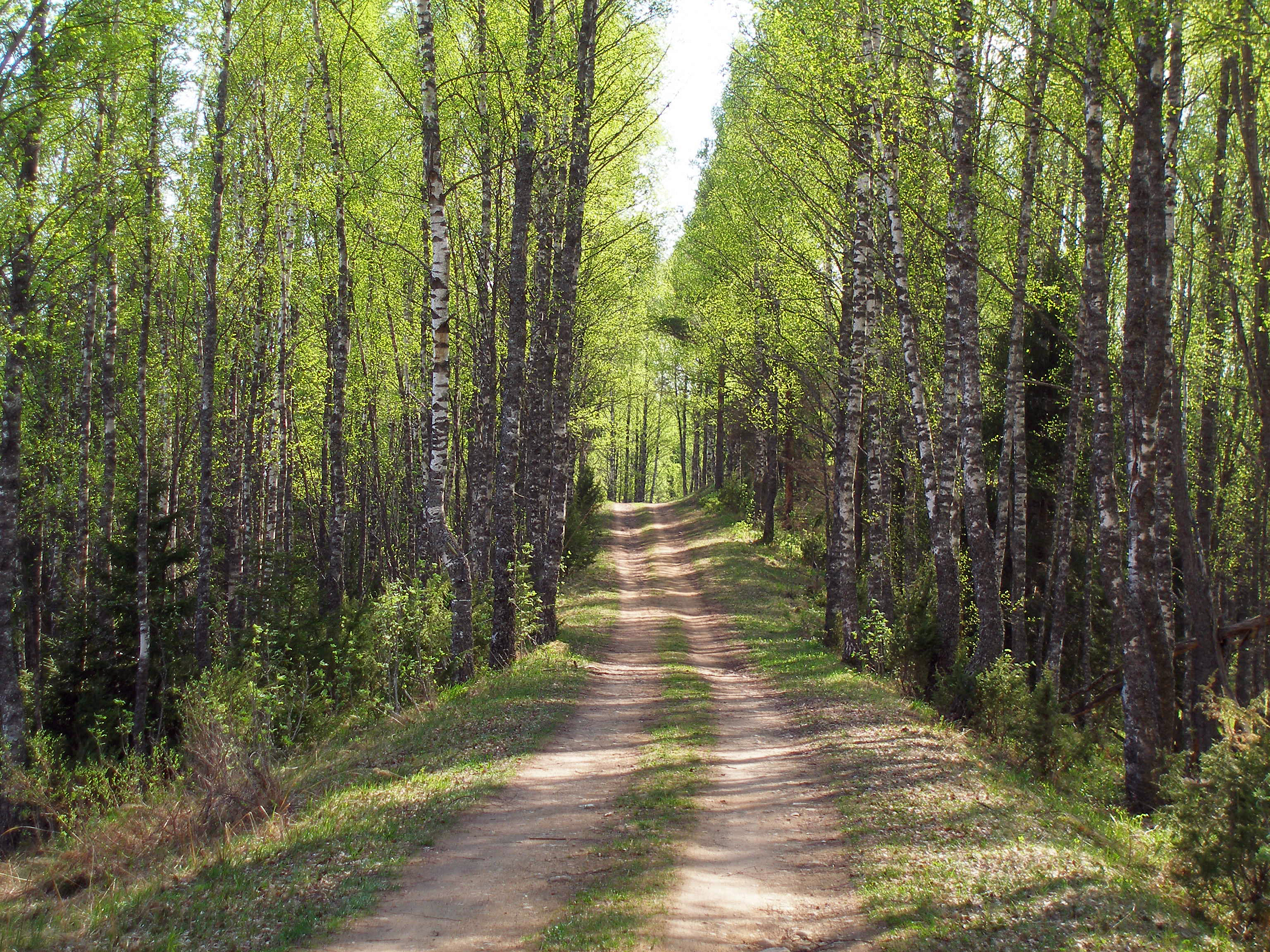 A forest trail running along the top of an esker in Põhja-Kõrvemaa, Estonia